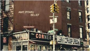 Offf NY 2007 Open Titles